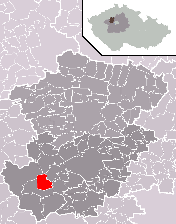 Location of Žilina municipality within Kladno District and administrative area of Kladno as a Municipality with Extended Competence.